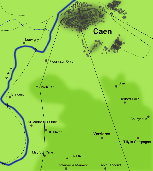 Map showing the geography of Verriéres Ridge and the surrounding area.